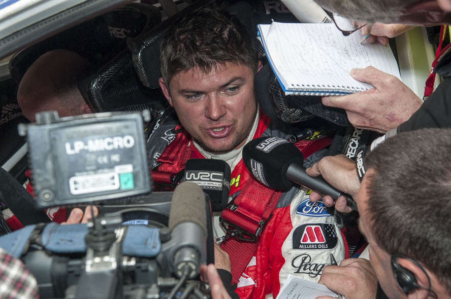 Wales Rally Great Britain 2012 Czech Ford National Team,Ford Fiesta RS WRC,Likes Land Rover at Walters Arena 2,Martin Prokop,Motorsport,Power Stage,Rally,Rallye,SS19,WP19,WRC,Wales Rally GB,Zdenek Hruza,Zielankunft